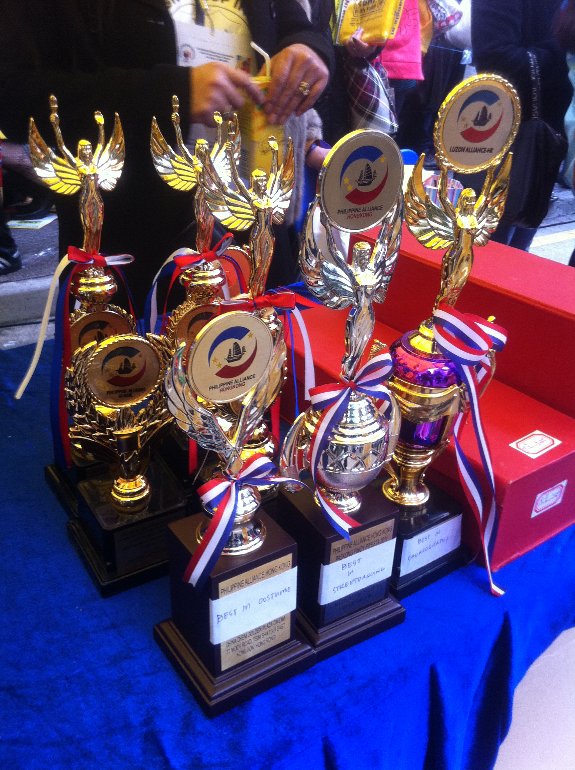 中文（香港）: HK 中環 Central 遮打道 Chater Road Sunday 菲律賓人 Filipino party